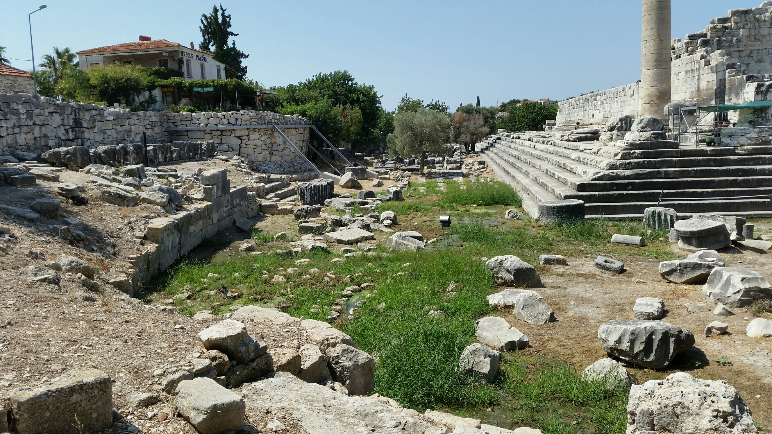 Ancient Greek stadium of Didyma